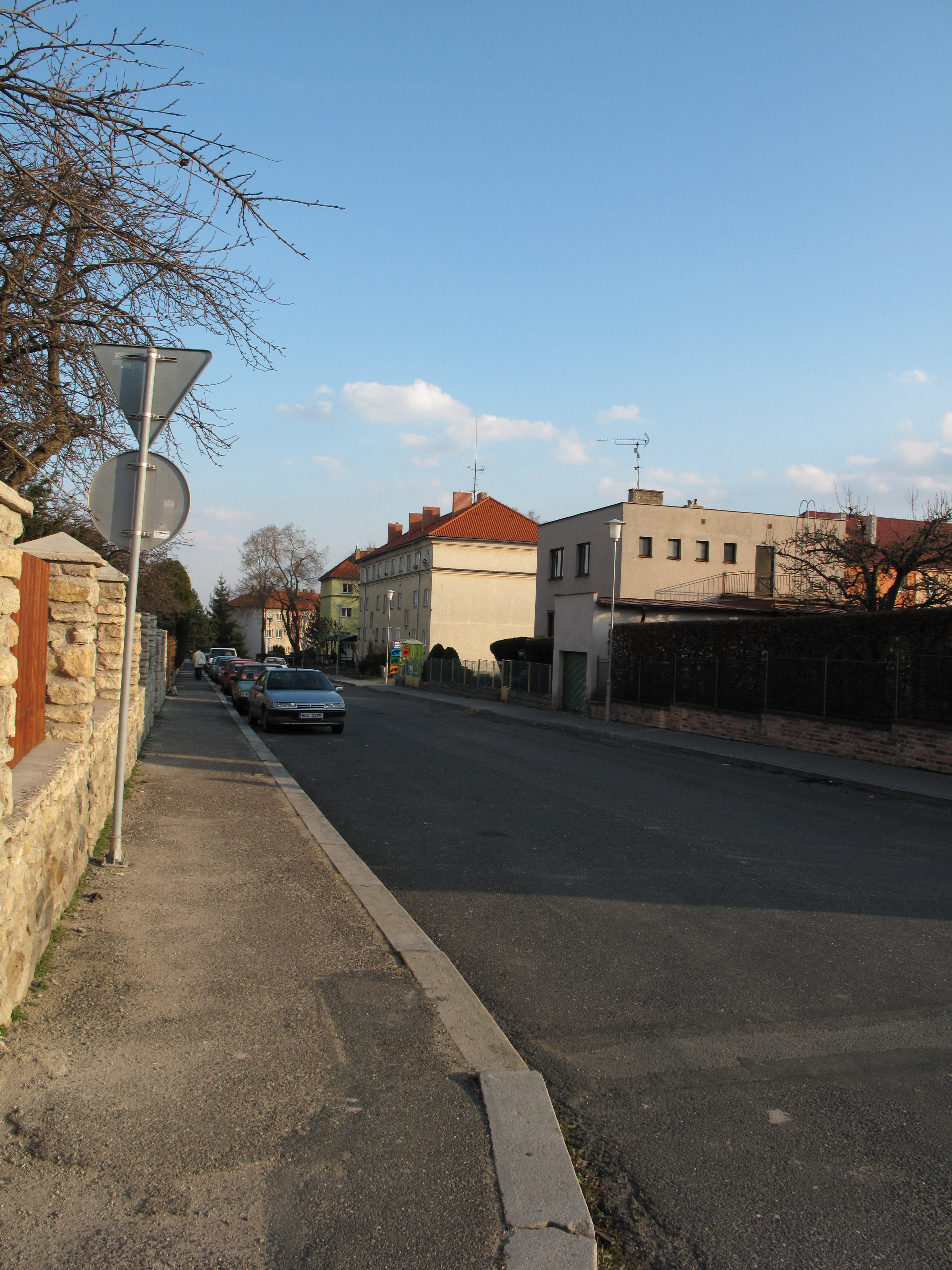 Kvapilova Street in Žižkov quater (Kutná Hora), Czech Republic.